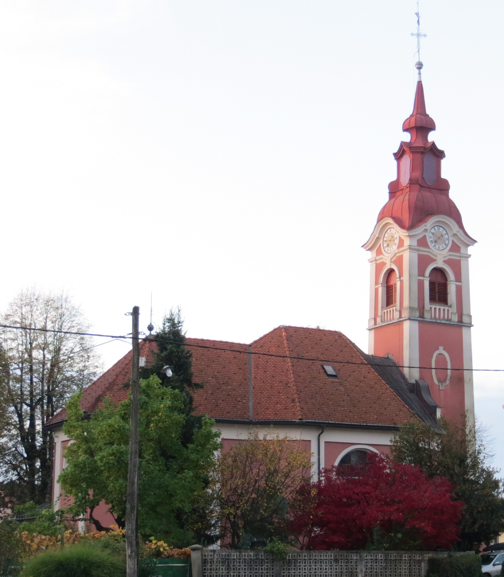 Saint Roch's Church in Dravlje, City Municipality of Ljubljana, Slovenia